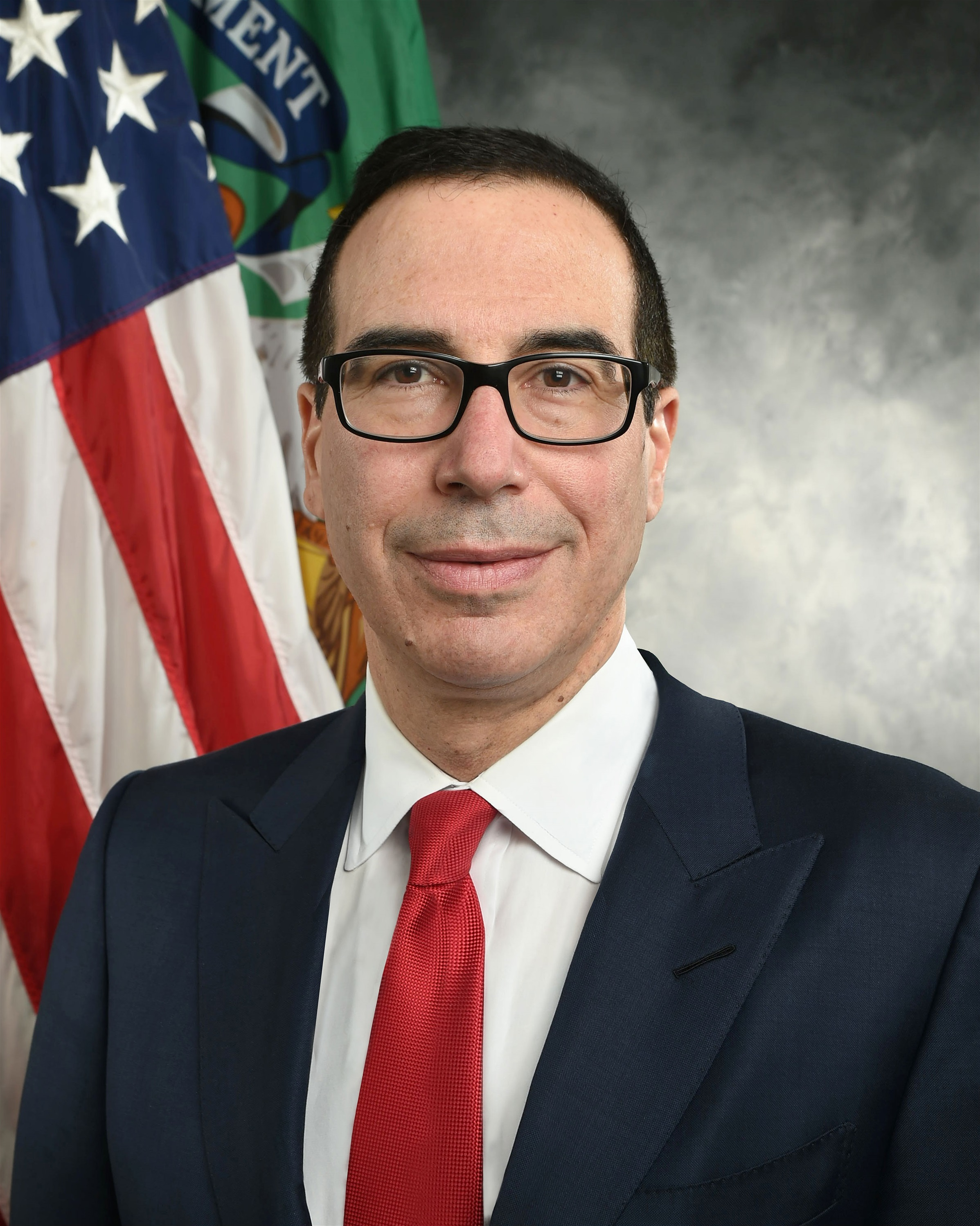 Official portrait of Steven Mnuchin, United States Secretary of the Treasury